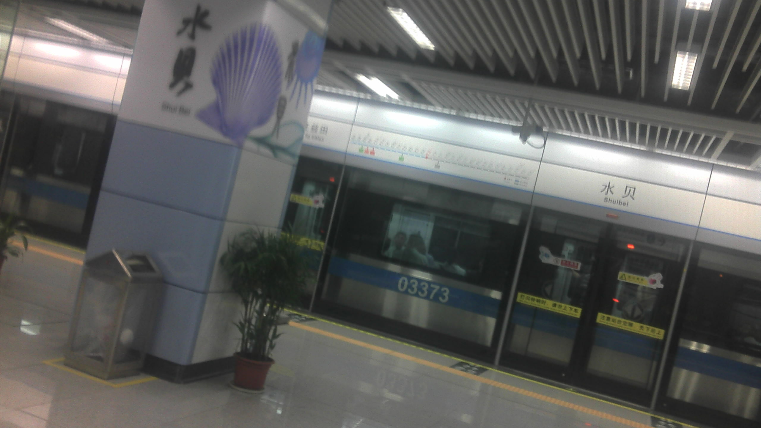 This photo was taken at 2011-09-17.